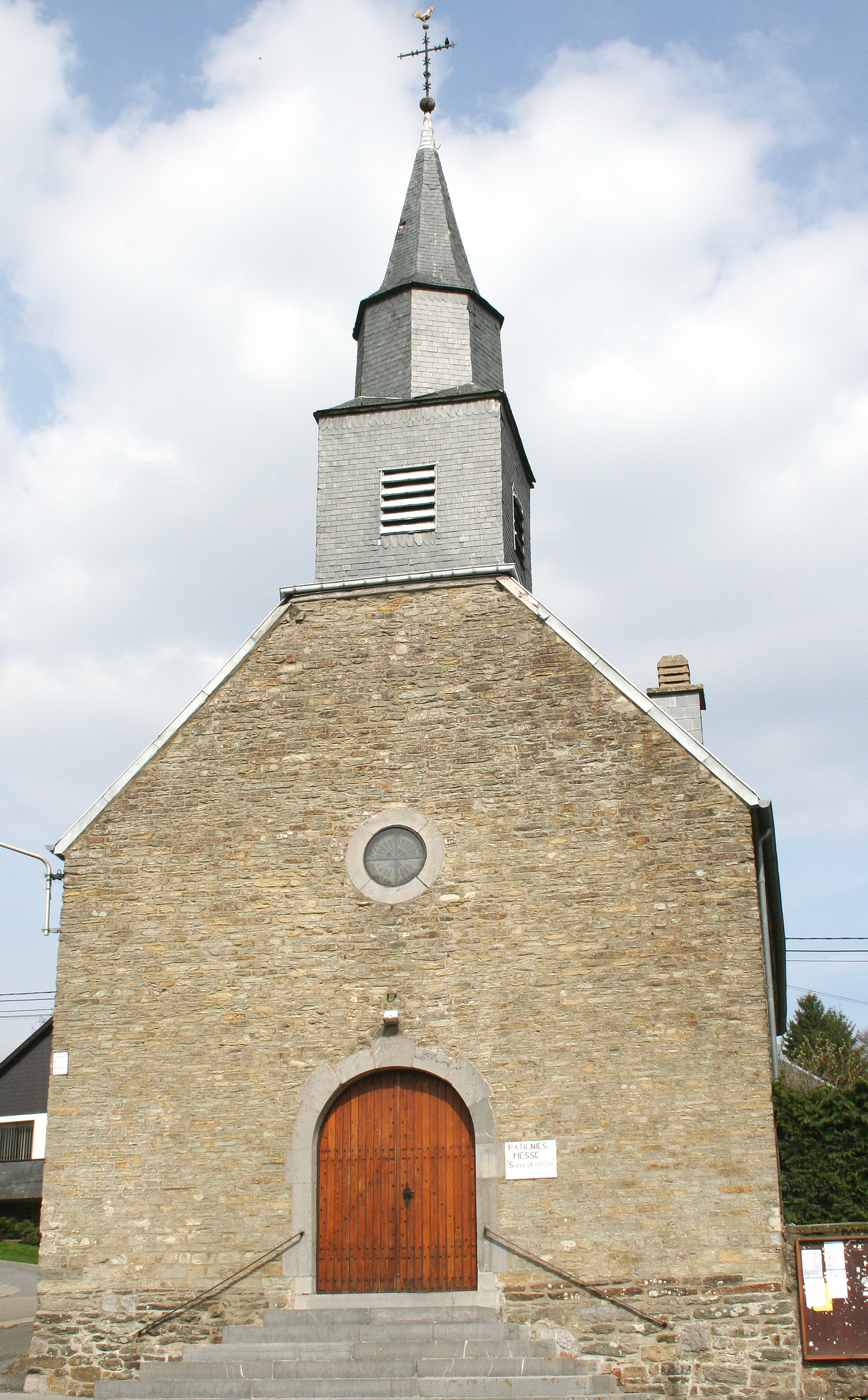 Patignies (Belgium), the St Cosmas and Damian church (1834-1836).